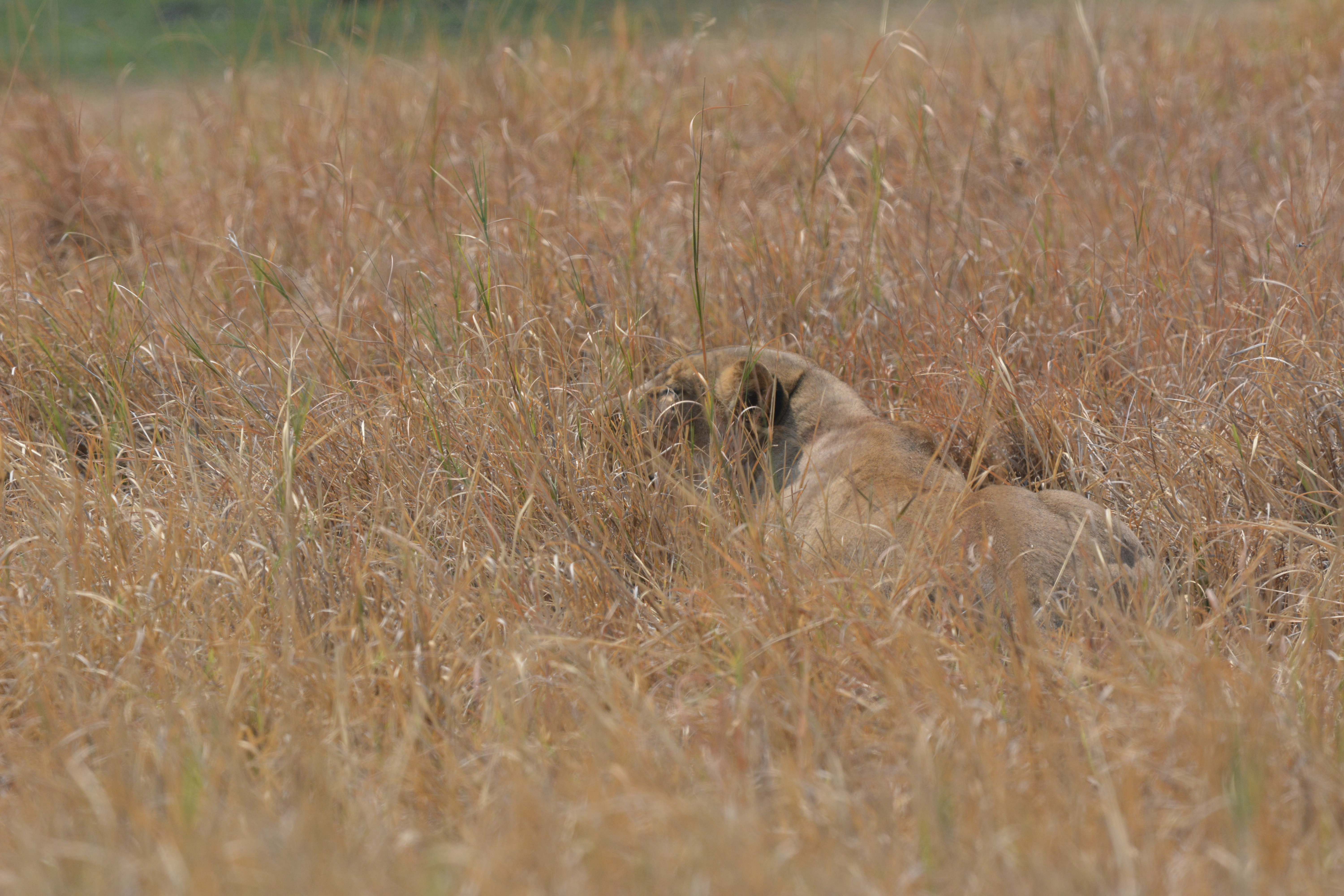 Picture taken in Botswana, in the Khwai area (Moremi Game Reserve) in August 2019.